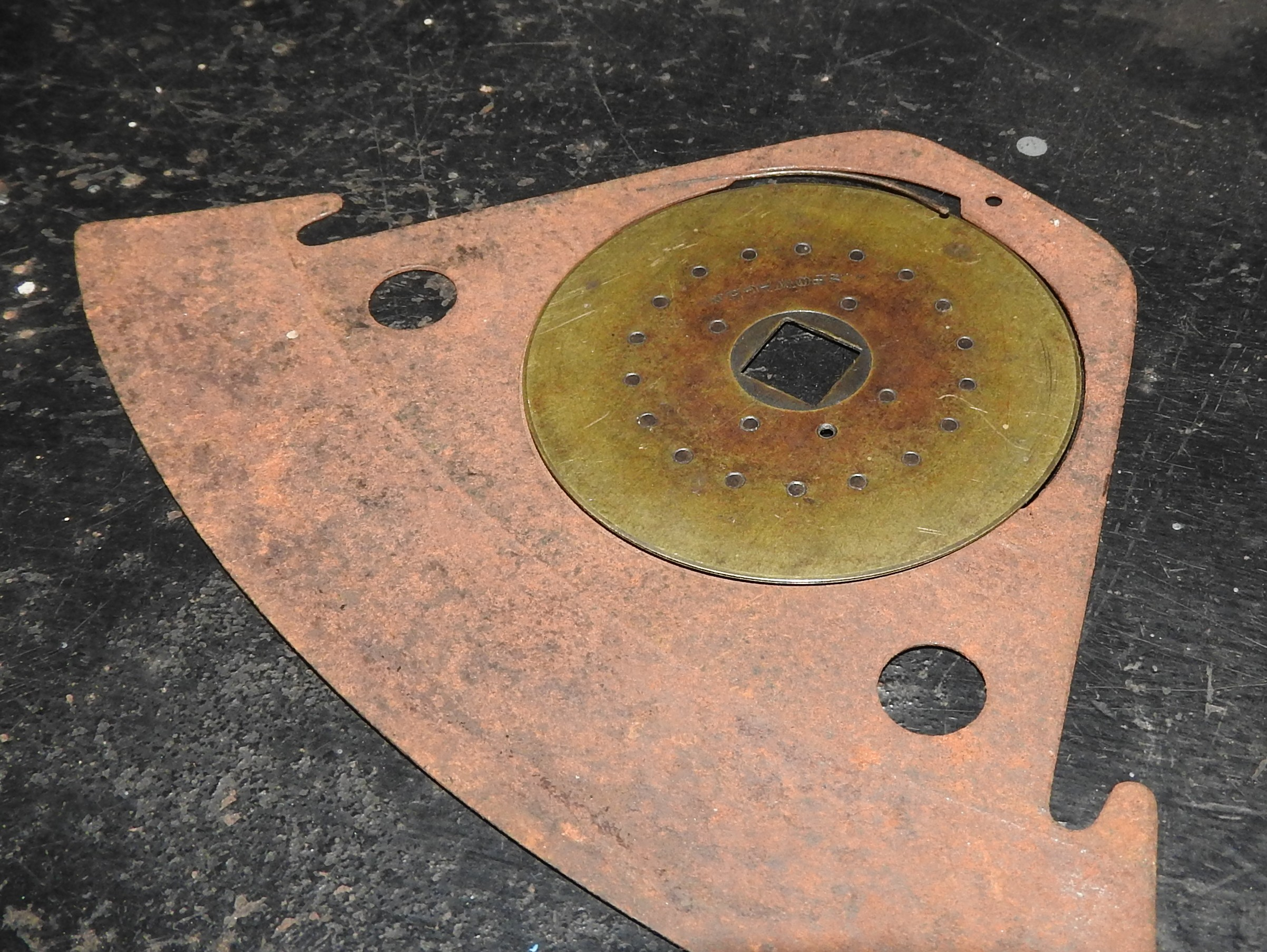 Nottingham Industrial Museum